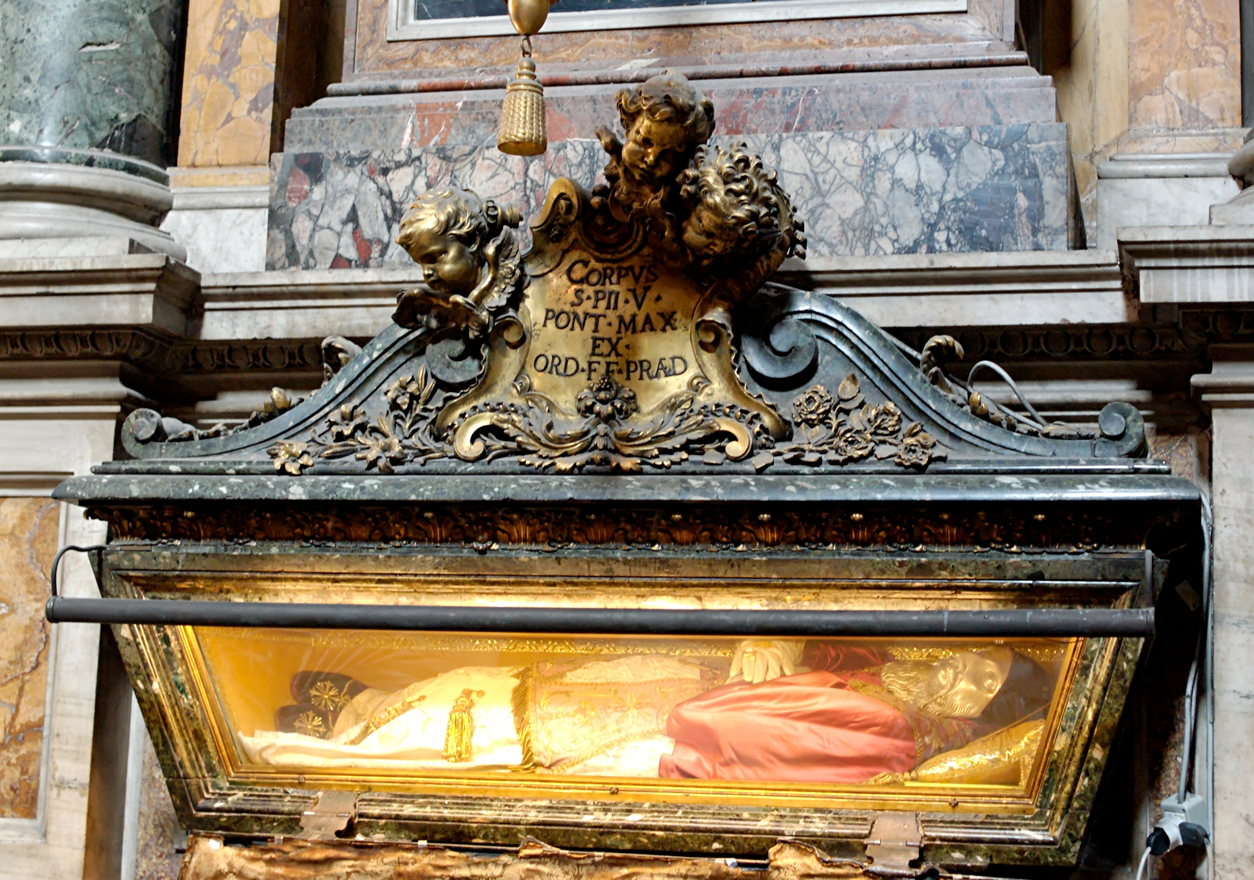 Detail, tomb of Pius V in the Sixtin Chapel of Basilica di Santa Maria Maggiore.